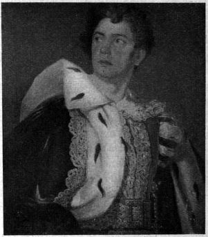 Gustaf Lindman